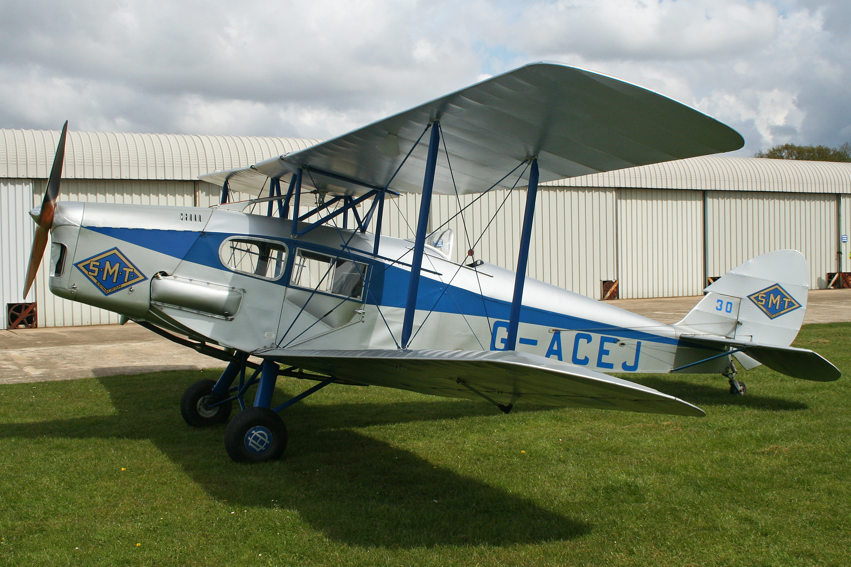 msn 4069. A classic visitor at the 2012 VAC and Daffodil Fly-in. Fenland Airfield. 14-4-2012